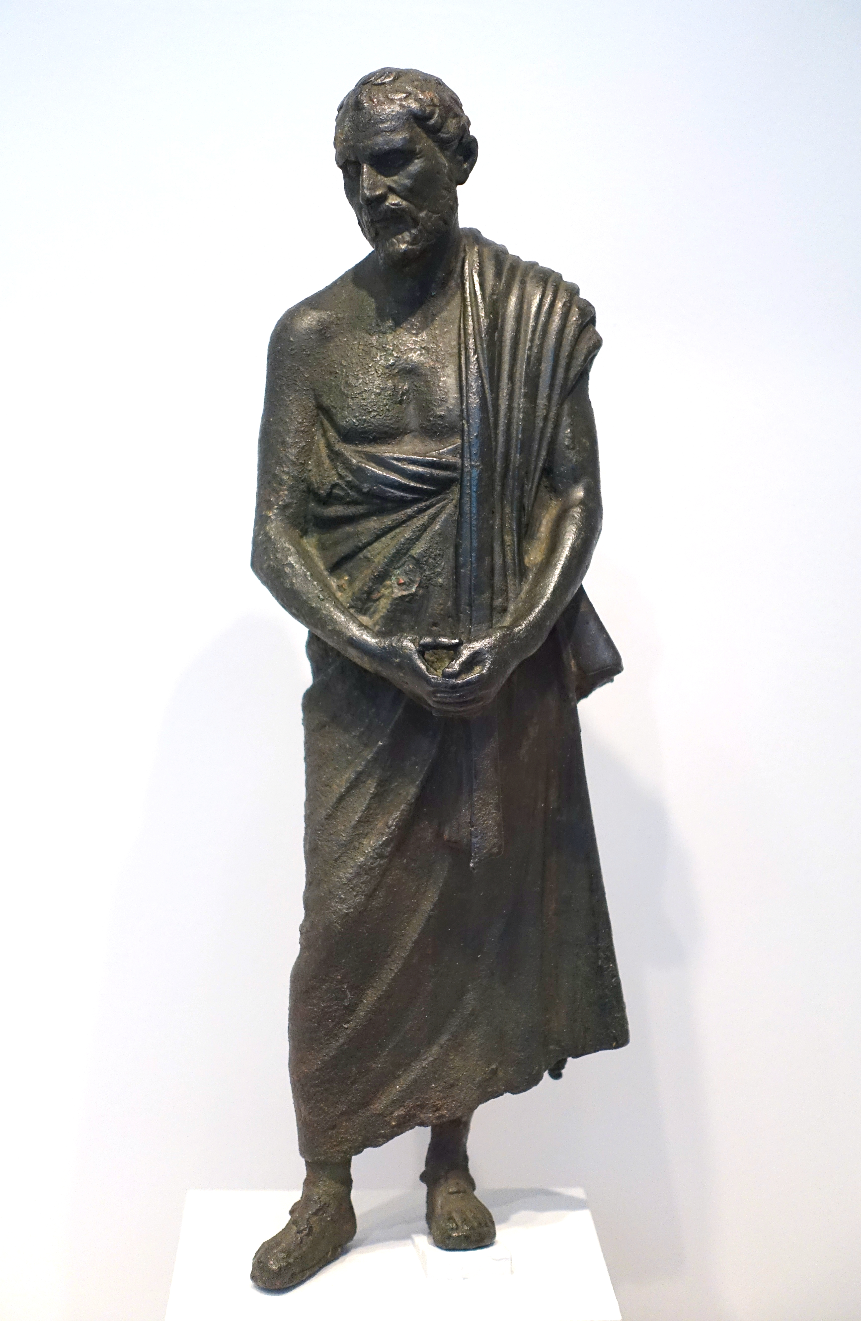 Exhibit in the Arthur M. Sackler Museum, Harvard University, Cambridge, Massachusetts, USA. This artwork is in the public domain because the artist died more than 70 years ago.